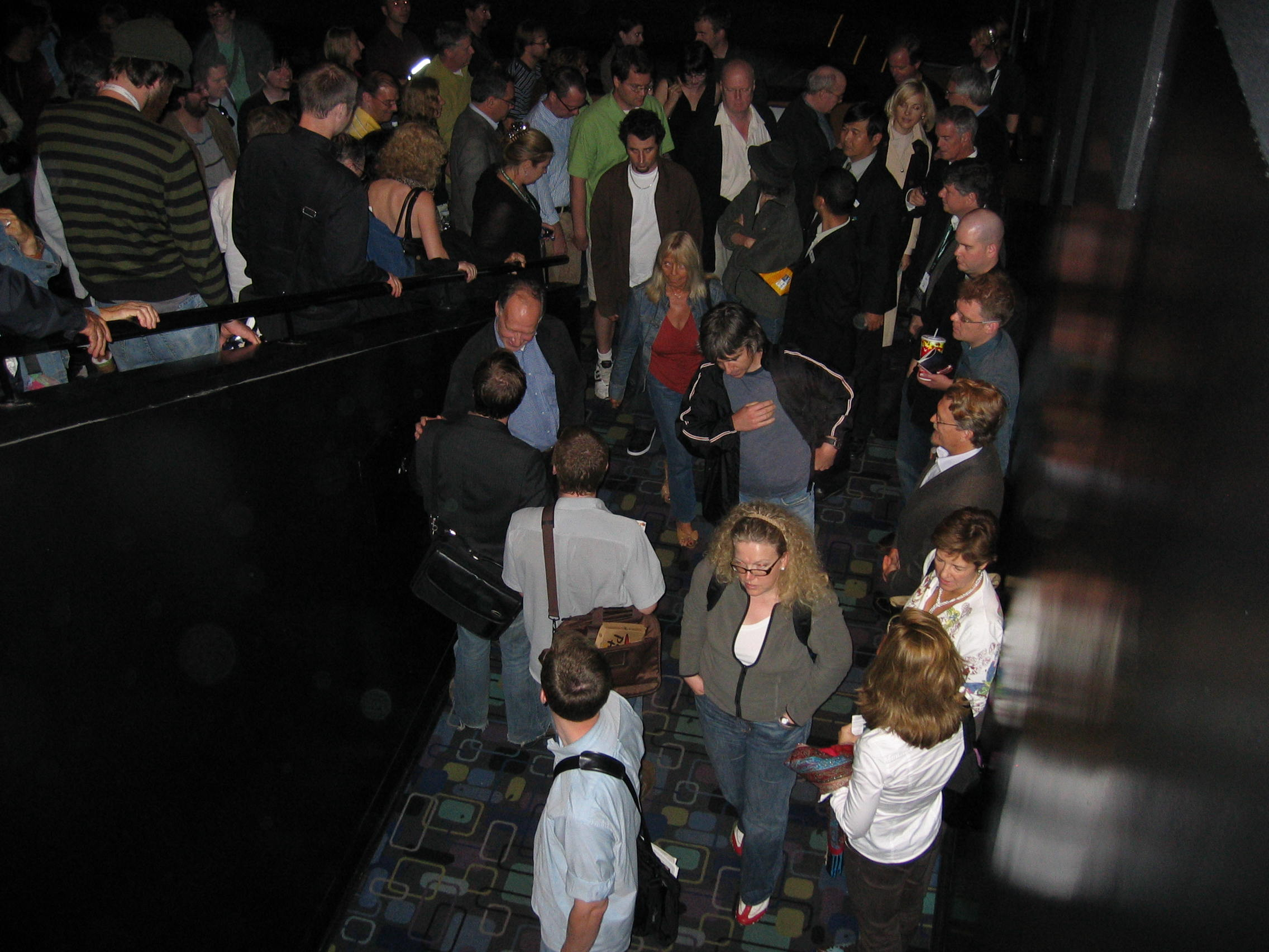 Werner Herzog talks with an audience member as the crowds exits the theatre after a screening of his documentary Encounters at the End of the World at the 2007 Toronto International Film Festival.